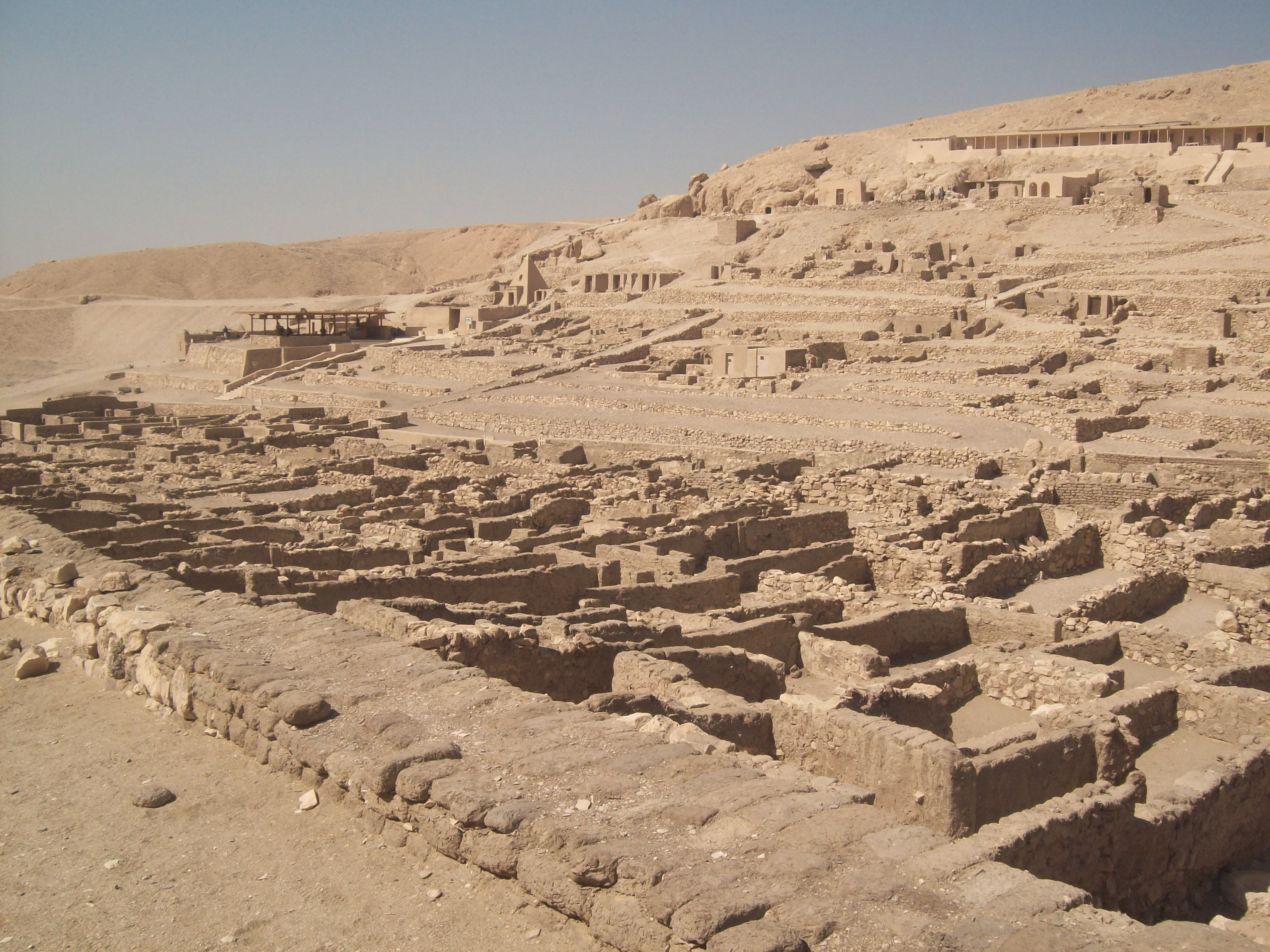 AWIB-ISAW: Workers' Village (V) The village where the artisans who worked on the tombs in the Valley of the Kings lived during the 18-20th dynasties of the New Kingdom. by Kyera Giannini (2009) copyright: 2009 Kyera Giannini (used with permission) photographed place: (Deir el-Medina) [ Published by the Institute for the Study of the Ancient World as part of the Ancient World Image Bank (AWIB). Further information: [